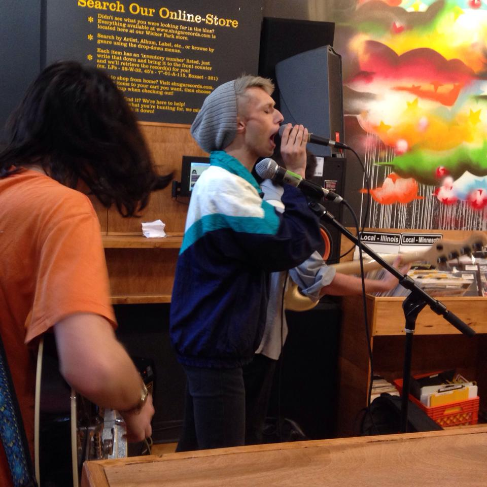 Shuga Records Storefront